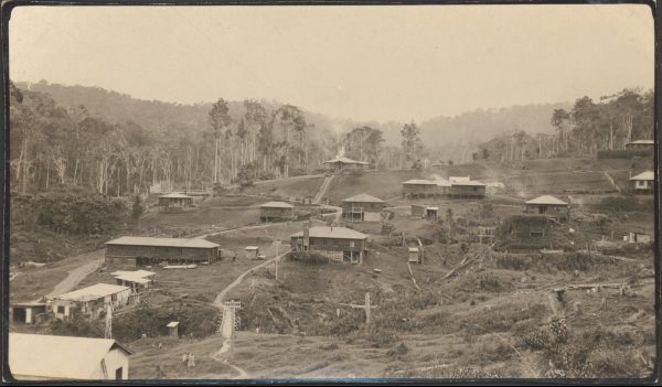 Edie Creek mine, Central New Guinea, October 1936. Inscription on reverse of photo "Edie Creek showing the offices store & mess. Our house is on the left ... labourer's houses can be seen on the extreme right".